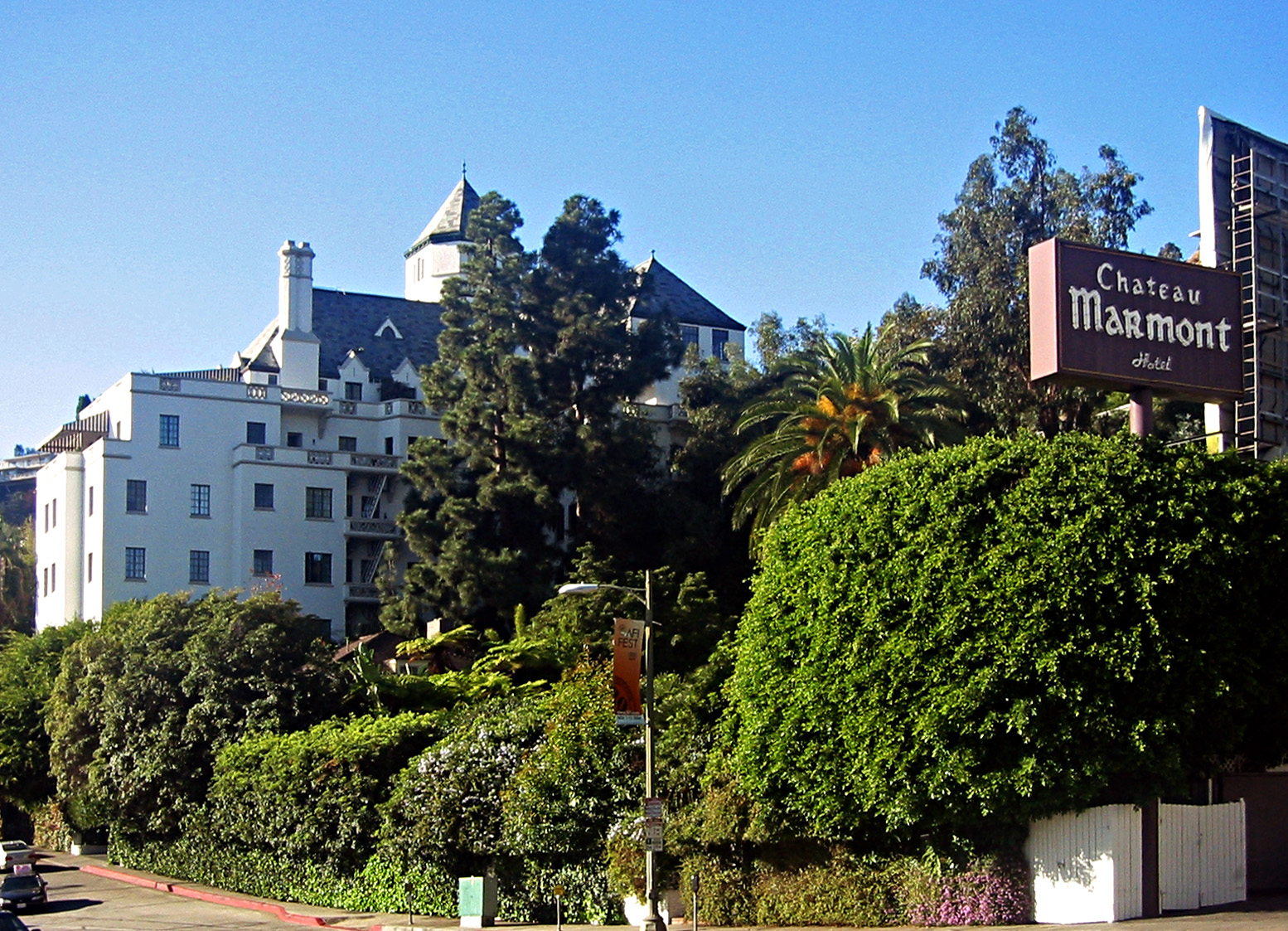 Chateau Marmont Hotel — on the Sunset Strip in West Hollywood, California. Landmark hotel built in 1927, and a Los Angeles Historic-Cultural Monument.